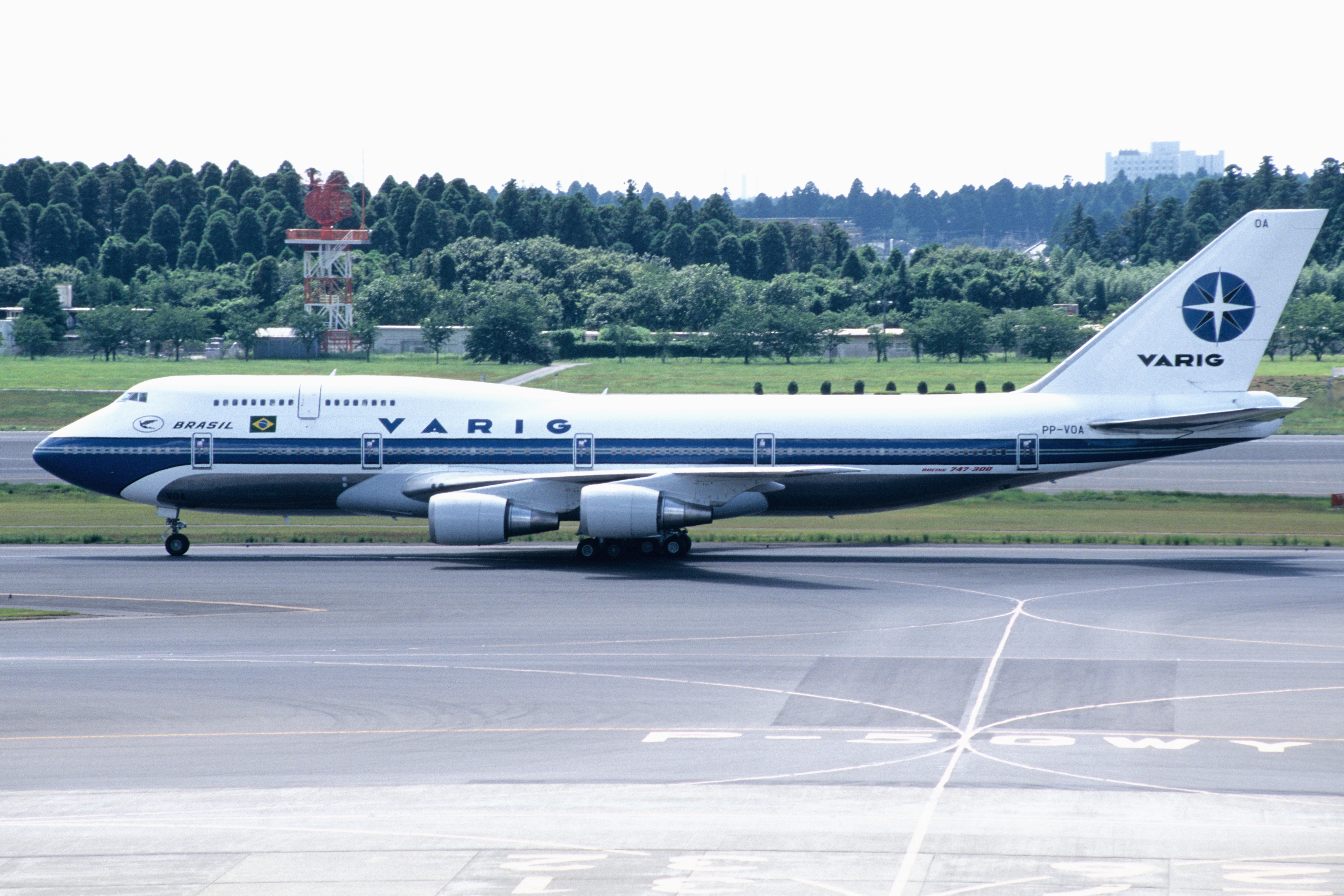 Historic Photo